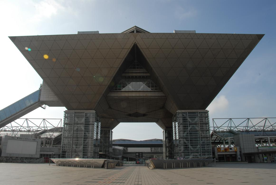 Depicts the Conference Tower of the Tokyo Big Sight, as seen from ground level.